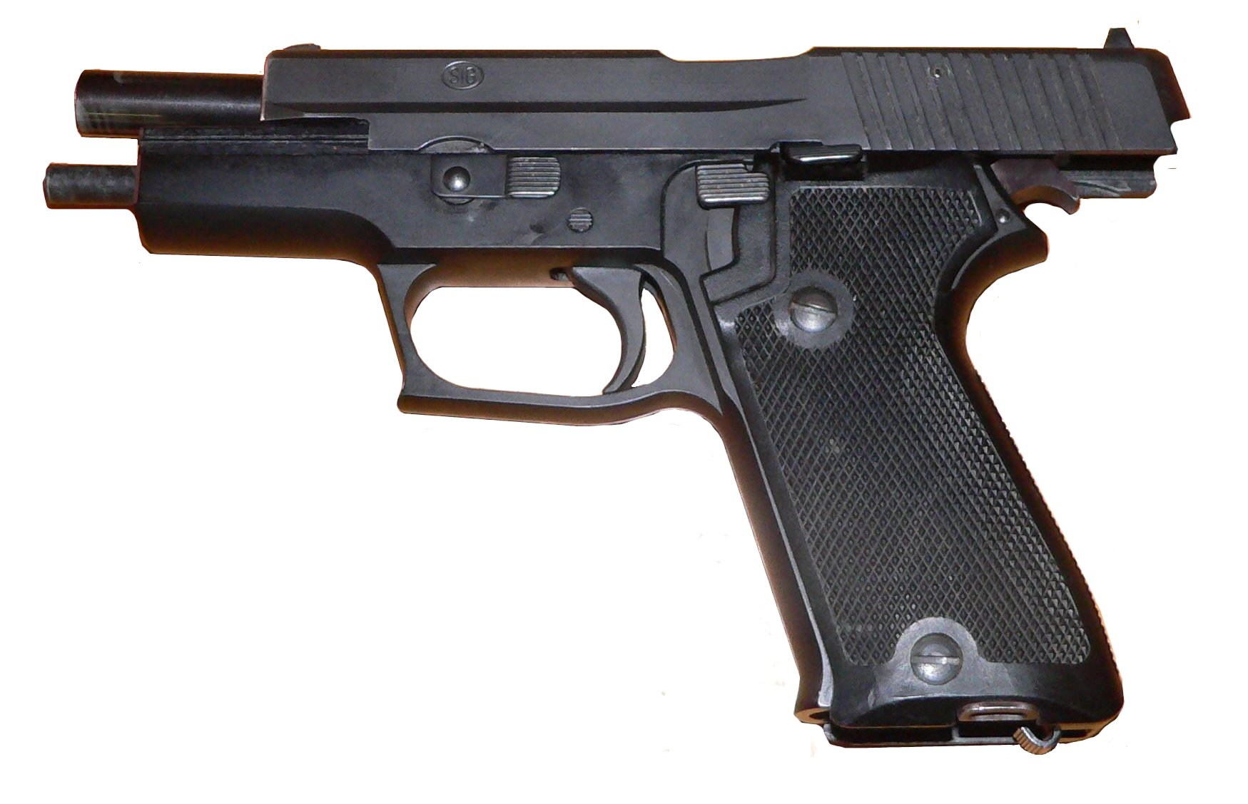 SIG P220 service pistol of the Swiss Army.